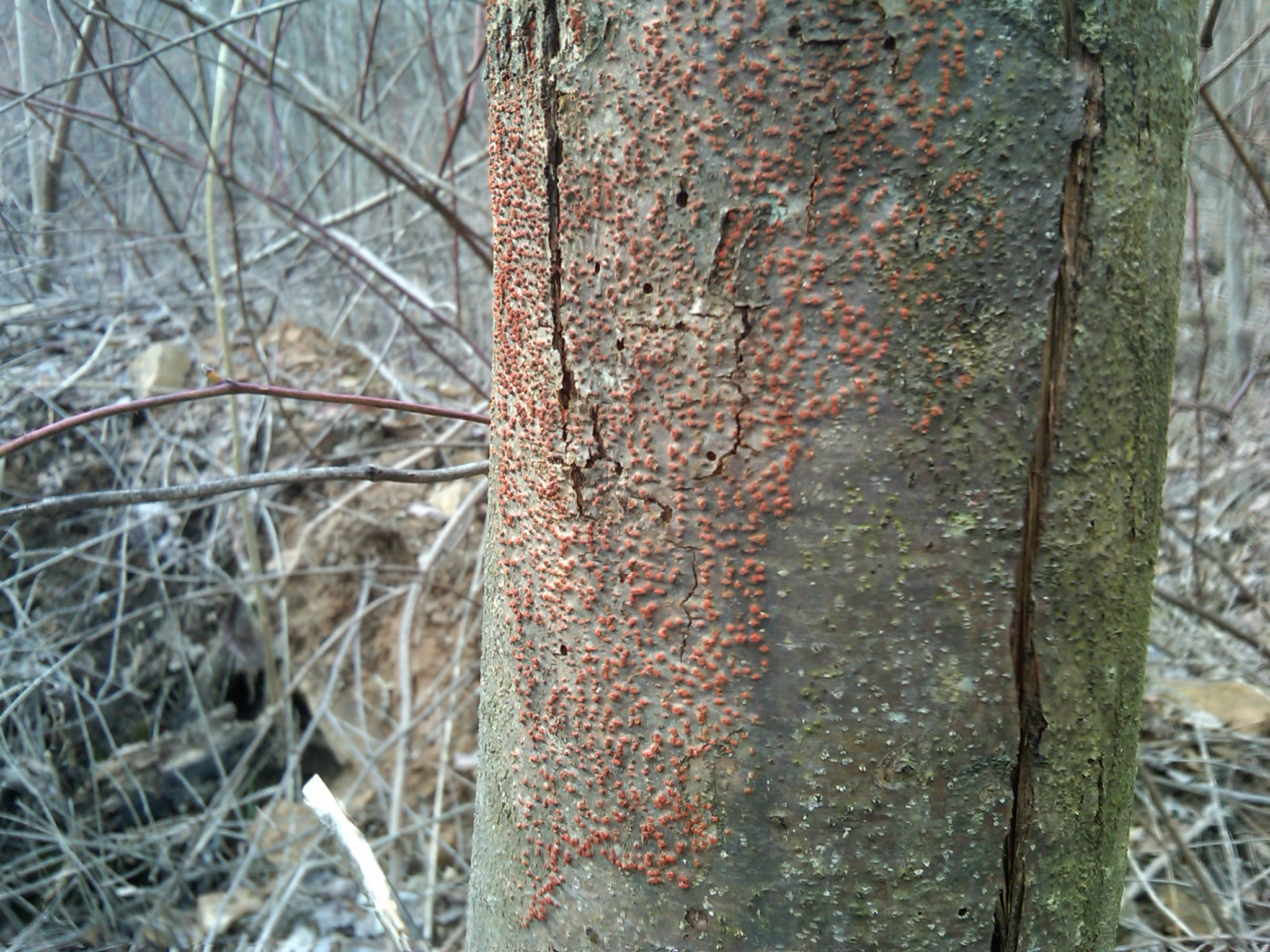 Chestnut tree fungus blight on the bark of a ~10 year old Chestnut tree in Adams County, Ohio